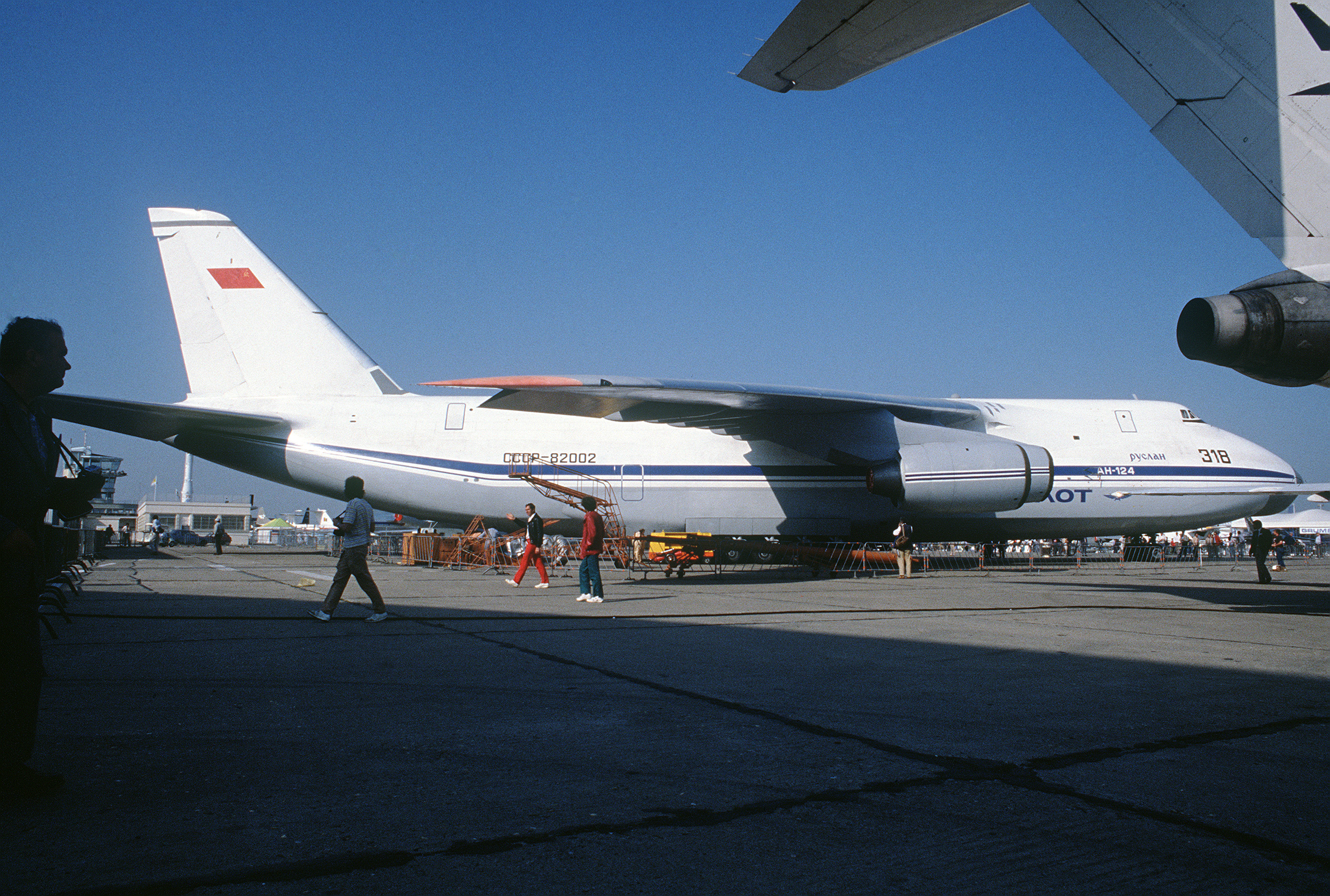 A right side view of an An-124 Condor cargo aircraft on display at the 85 Paris Air Show.